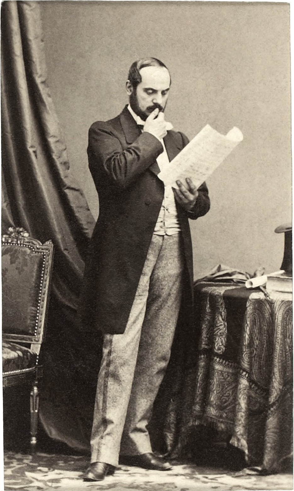 Jean-Baptiste Arban (1825 - 1889), French virtuoso of the valve cornet, composer, conductor and pedagogue.